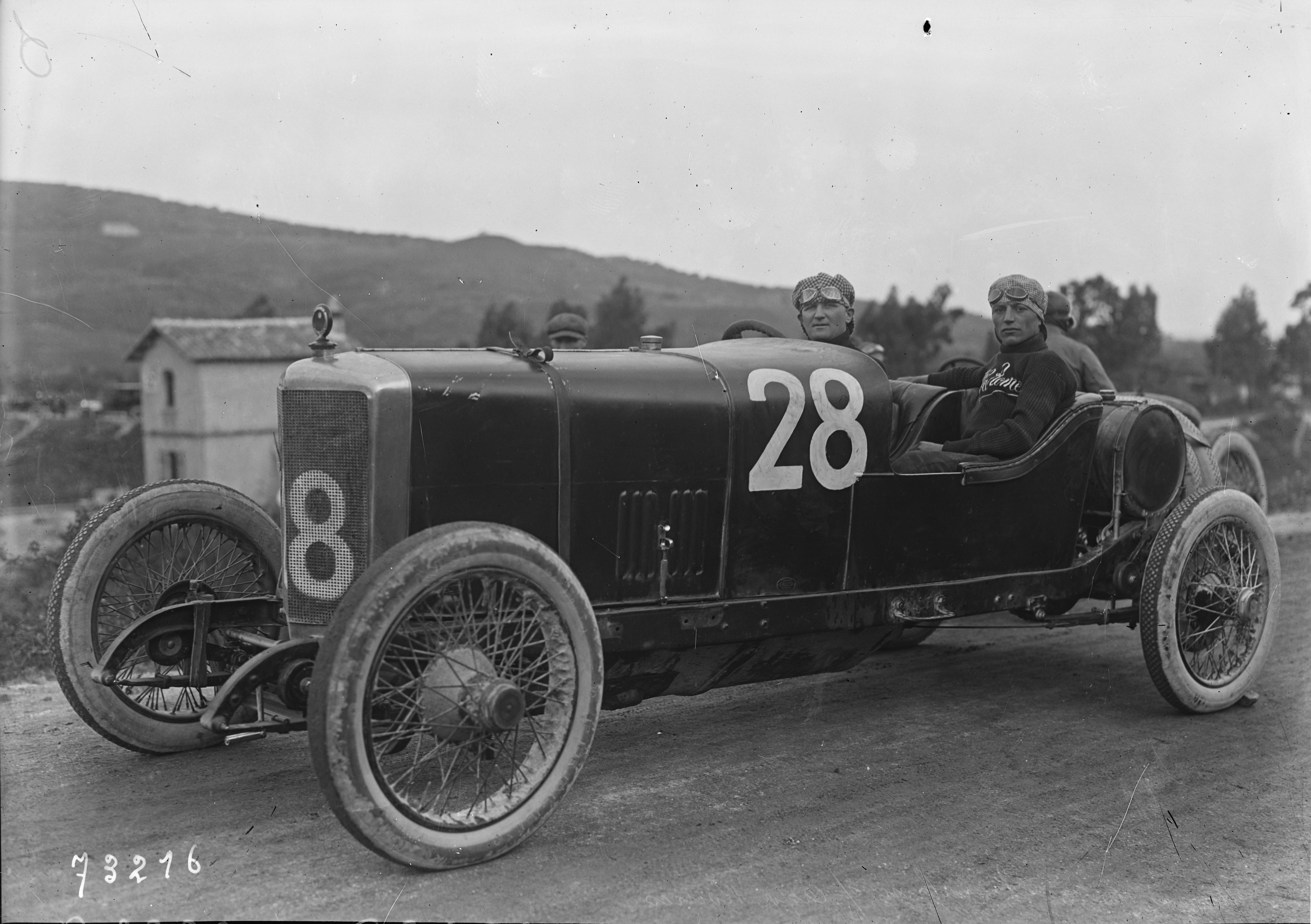 Entry #28 at Targa Florio on Sicilia 2 April 1922 was Augusto Tarabusi in his 3-litre Alfa Romeo RS Sport. The co-driver/mechanic (to the right) is unknown as of yet. They did not finish the race. [1].